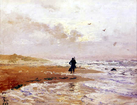 The beach of Skagen, painting by Danish artist Thorvald Niss, one of the Skagen painters